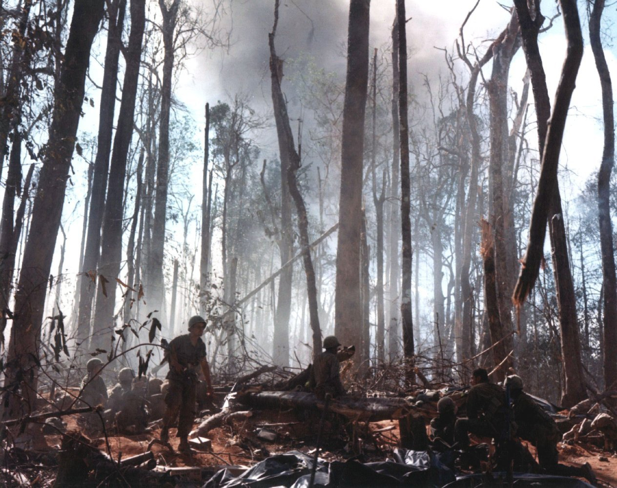 Destroying enemy bunkers after assault on Hill 875, 2nd Bn., 173rd Abn. Bde., Vietnam, 1967.